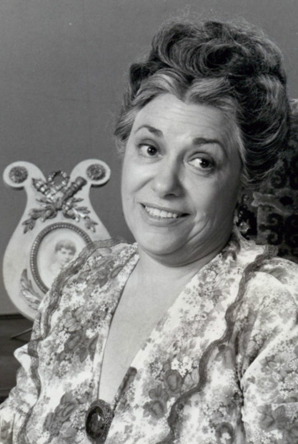 Publicity photo of Naomi Stevens as Rose Montefusco, 1975. The show was The Montefuscos and it aired for one season only.